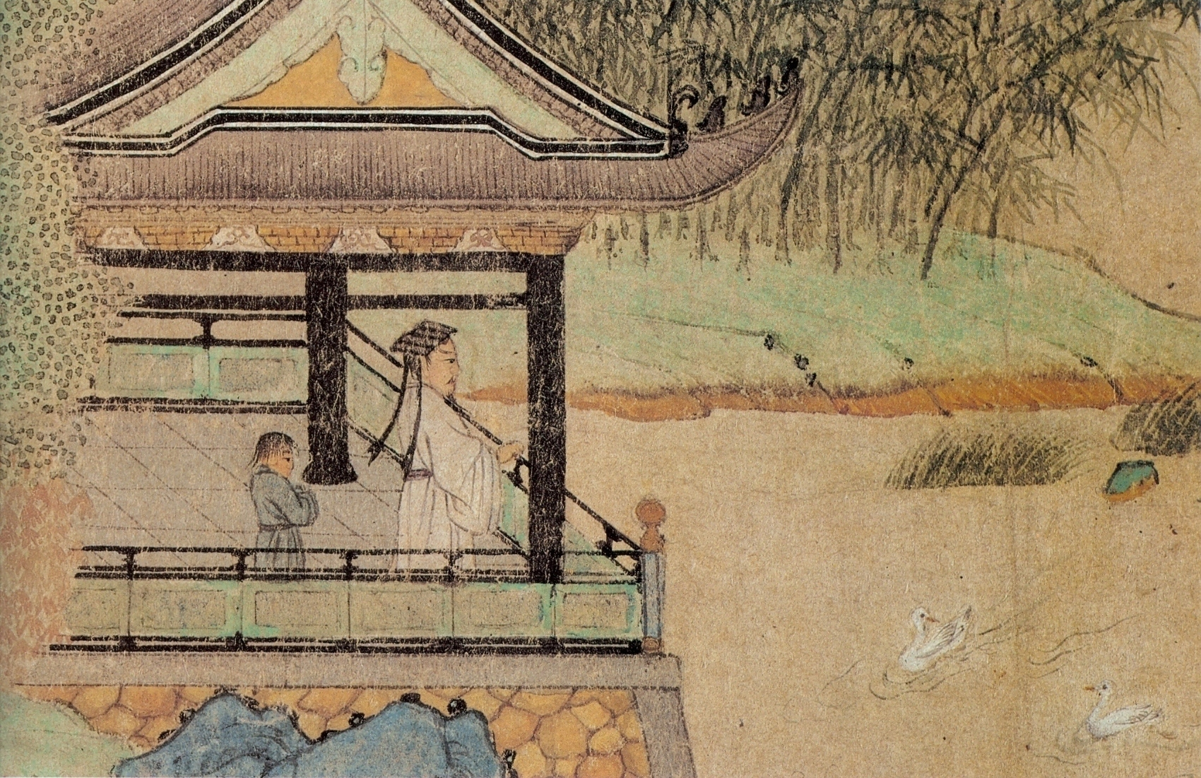 Qian Xuan Wang Xizhi Watching Geese. (23,2x92,7cm) Section. Metropolitan Museum of Art, N-Y